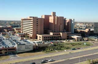 Photo of INTEGRIS Baptist Medical Center in Oklahoma City, Oklahoma.